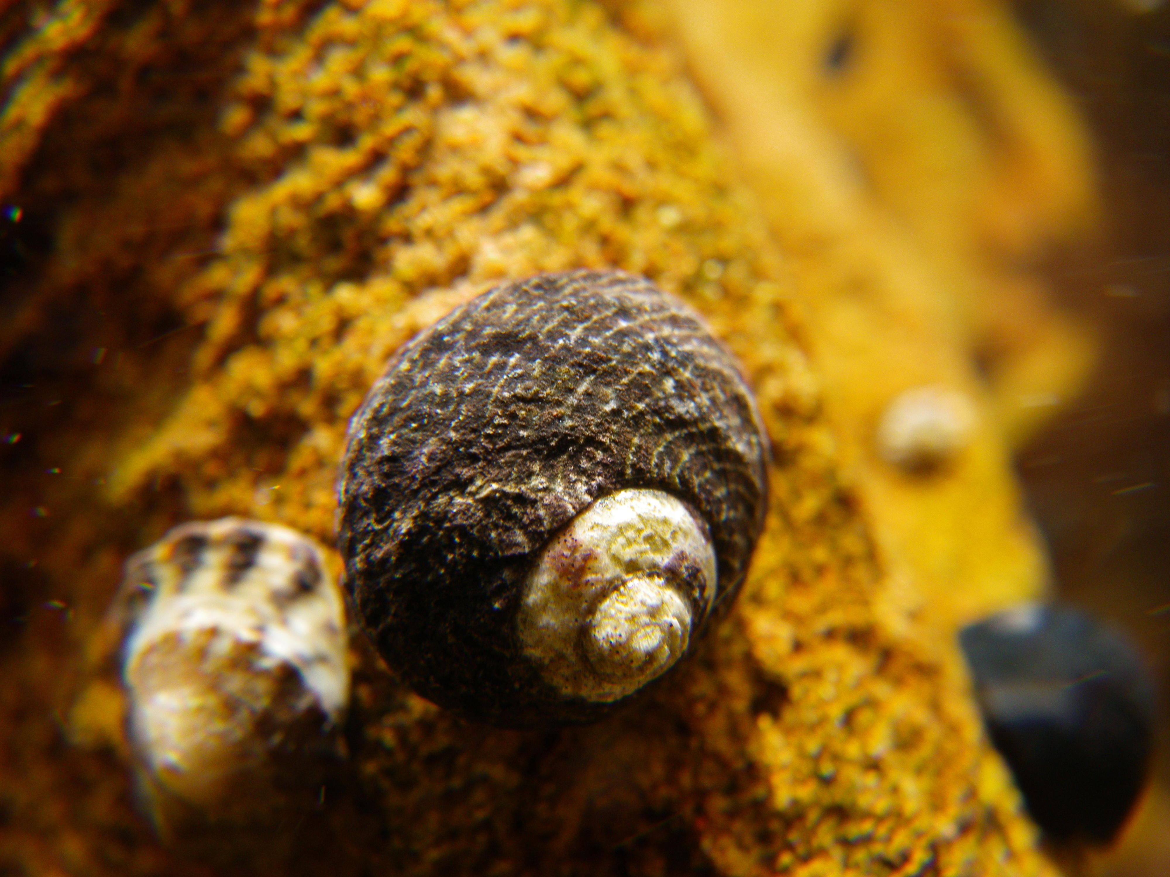 Zebra snail Austrocochlea porcata variant with thin white stripes. Located in the rock pools of MacMasters Beach, NSW, Australia.